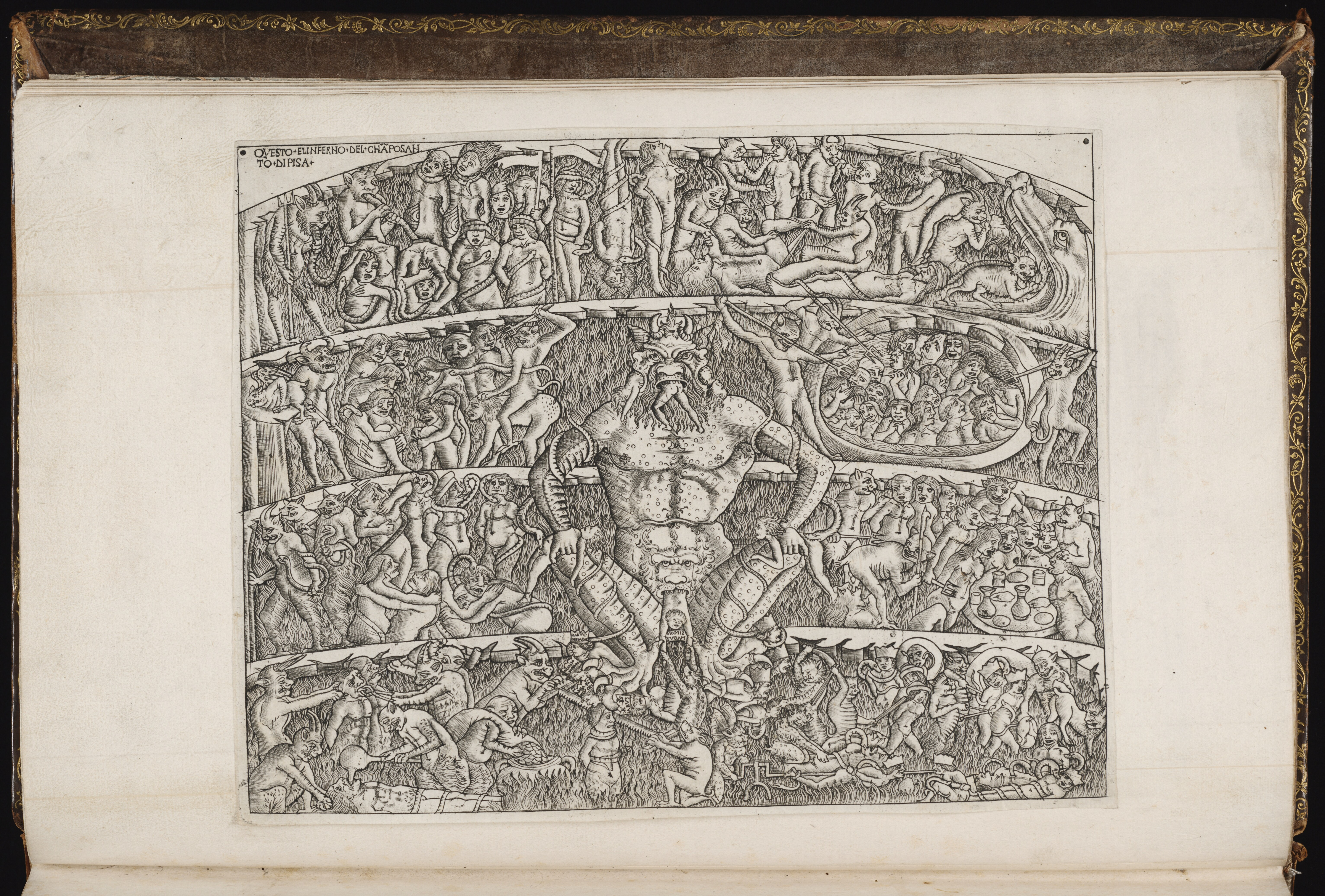 Engraving depicting Dante's Inferno with monstrous creatures. Engraving by Baccio Baldini after Sandro Botticelli to illustrate the a printed version of Dante's "Inferno." The illustration was mounted on a blank leaf preceding the page entitled "Canto primo della prima cantica o vero ...". 22.5 × 28.5 cm (8.9 × 11.2 in). Courtesy of Beinecke Rare Book and Manuscript Library, Yale University, New Haven, Conn.